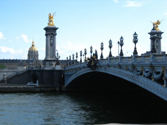 Pont_Alexandre_III_3.jpg